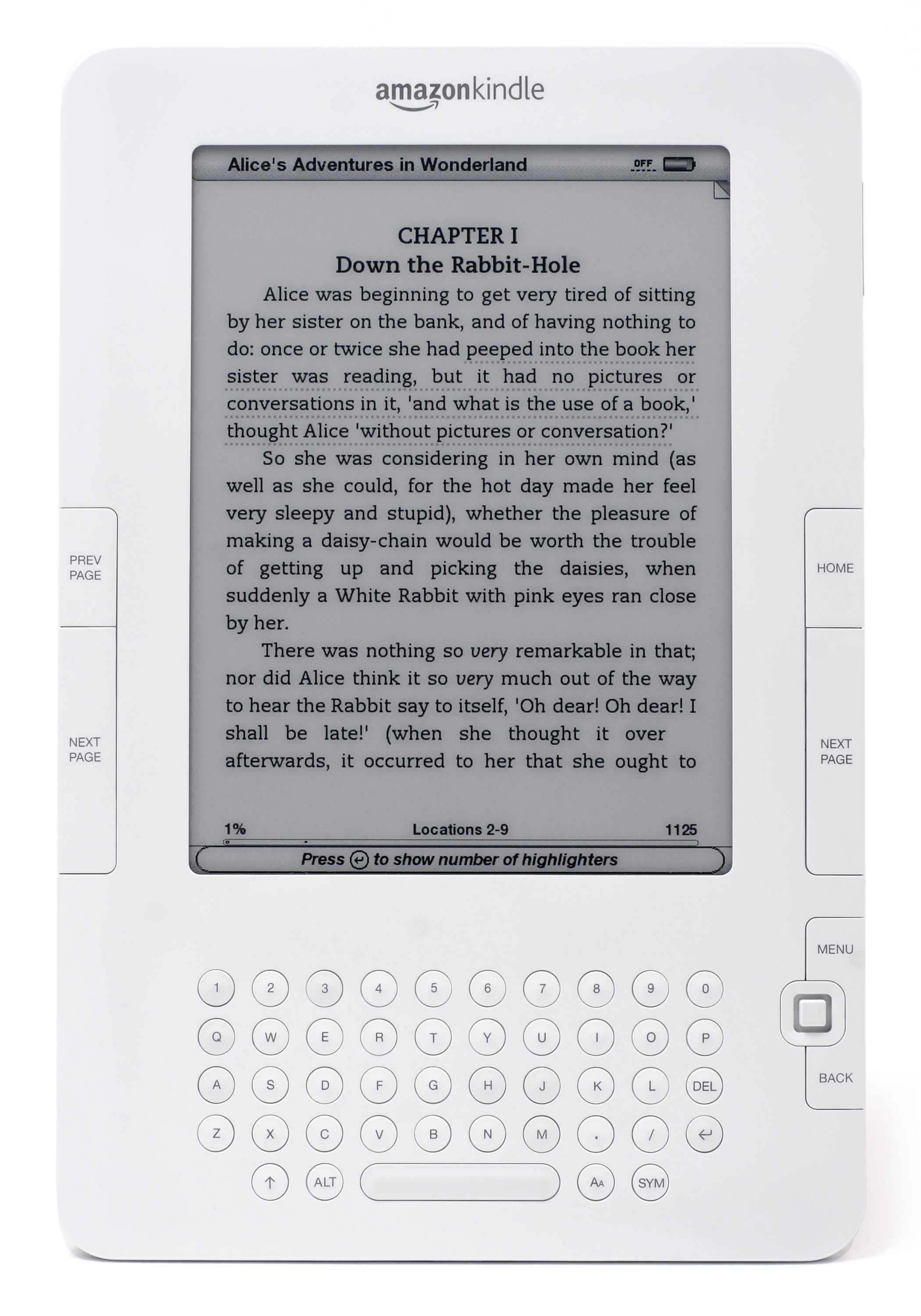 The second generation Amazon Kindle, showing the public domain book Alice's Adventures in Wonderland